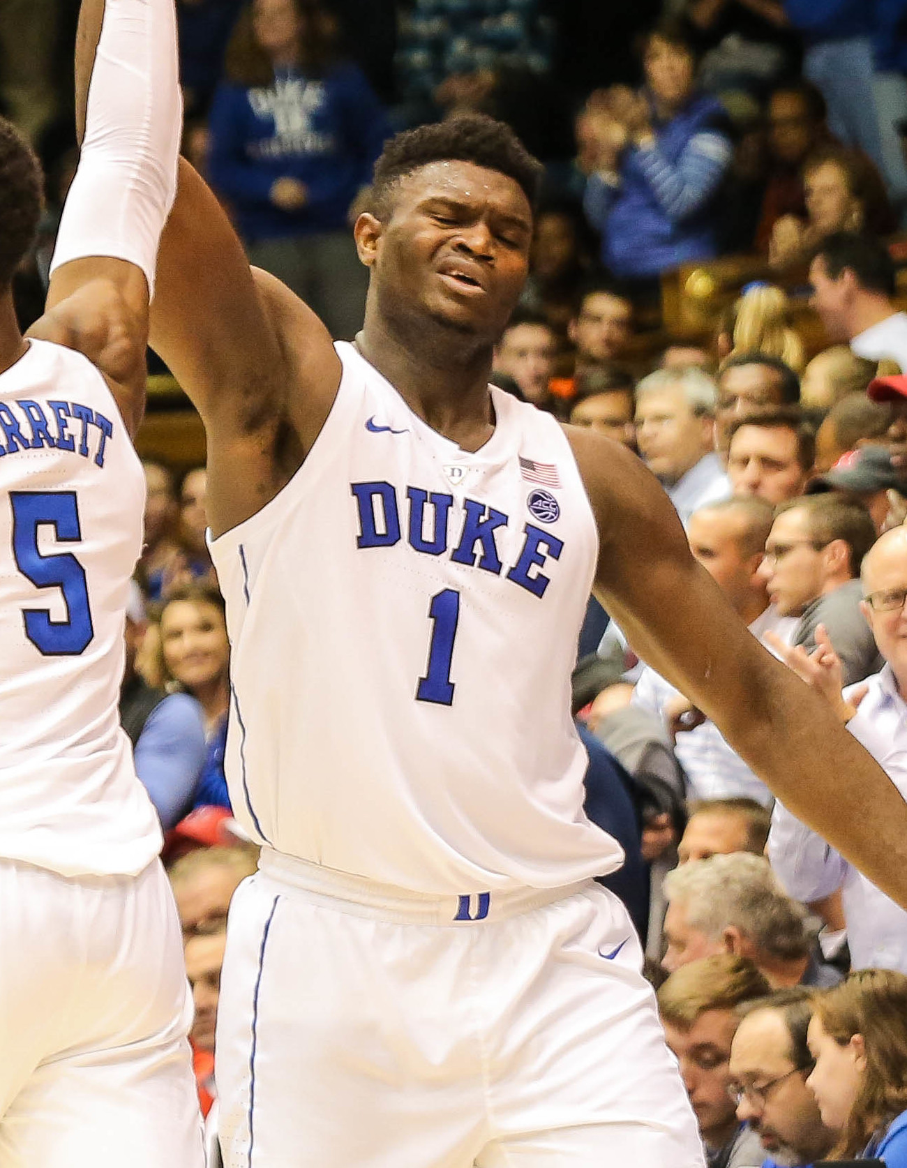 RJ Barrett & Zion Williamson :: Duke Men's Basketball NCAA :: Keenan Hairston